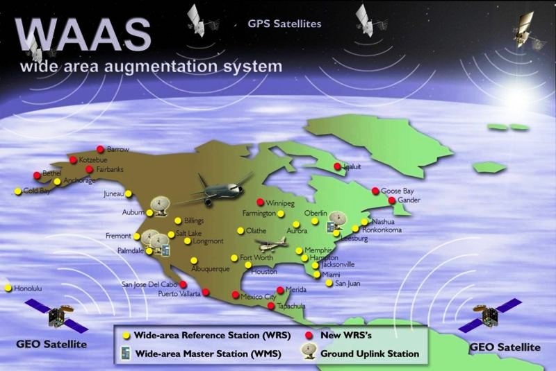 Image showing the Wide Area Augmentation System (the FAA's Space Based Augmentation System or SBAS). This image shows the general location of the 38 reference stations, the 2 master stations, and the four ground uplink stations.